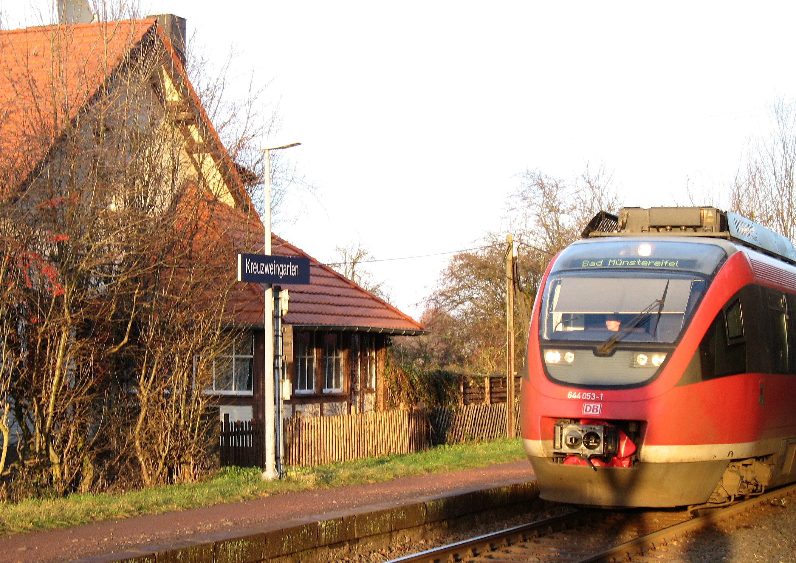 Train of the Voreifel line (RB23) at Passenger stop "Kreuzweingarten", Eifel